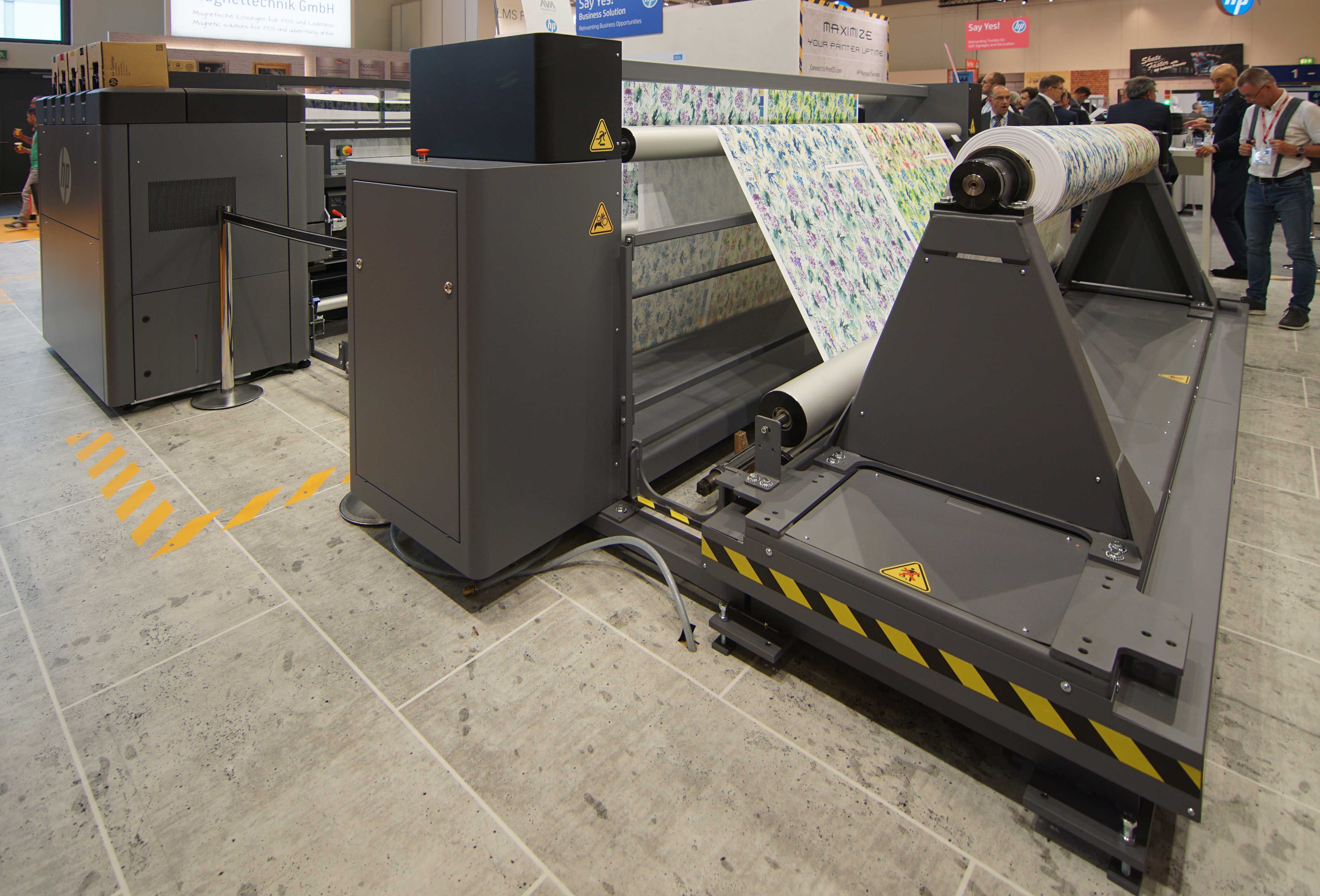 Large format decor printing with latex inks on a 3.50m wide oilcloth web; f.l.t.r.: inkjet printer, dryer, winder